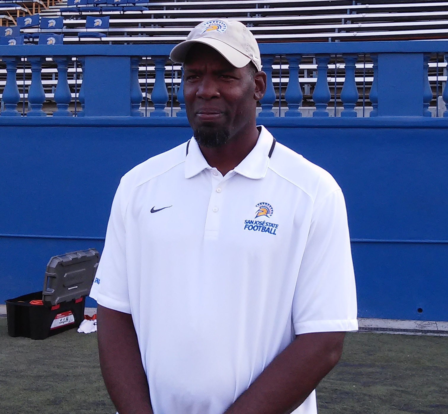 San Jose State defensive coordinator Ron English conducts a post-game interview after the team's fall scrimmage.